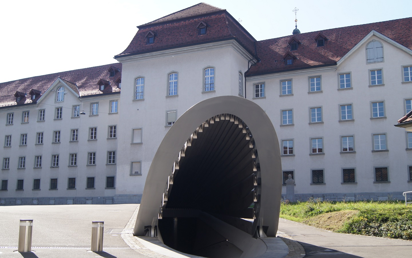 Neue Pfalz St. Gall, entrance to the Pfalzkeller